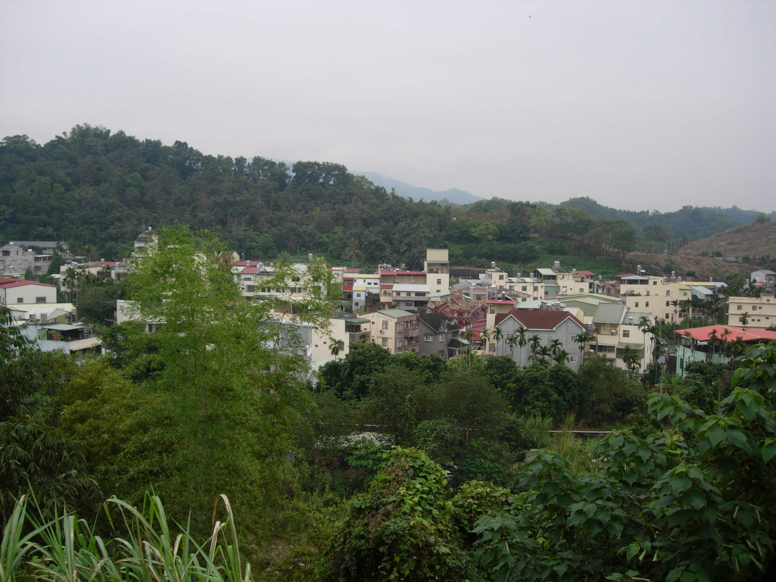 Jhongliao Shuangwun Hamlet